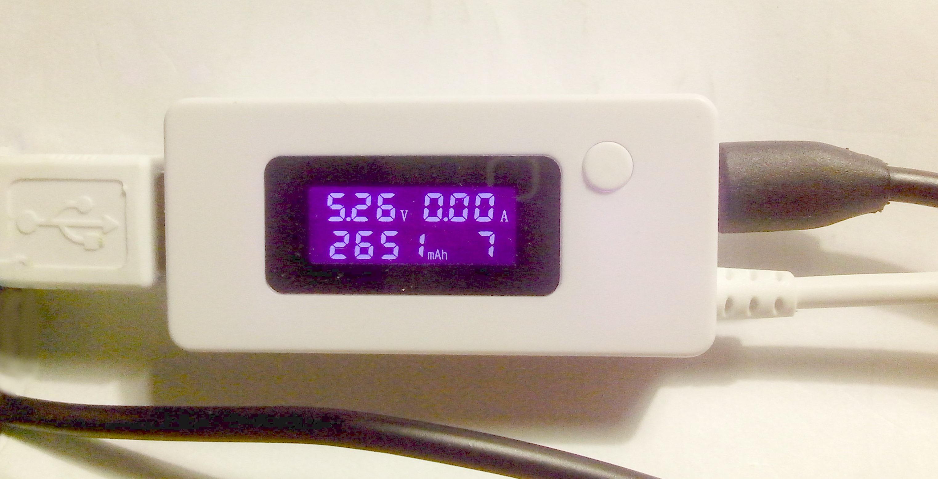 USB voltage, current and charge (mAh) meter